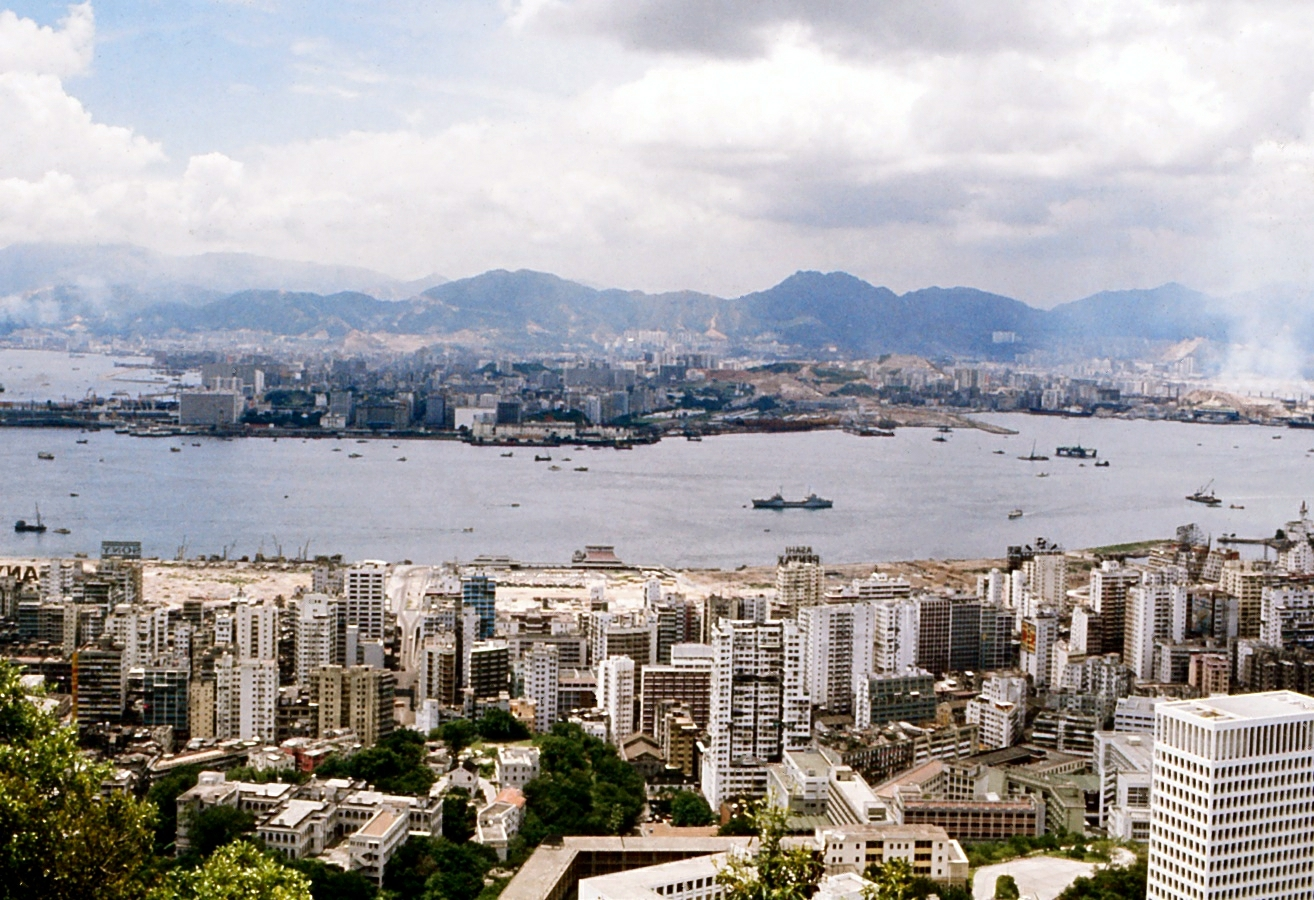 Wan Chai Skyline From Victoria Peak